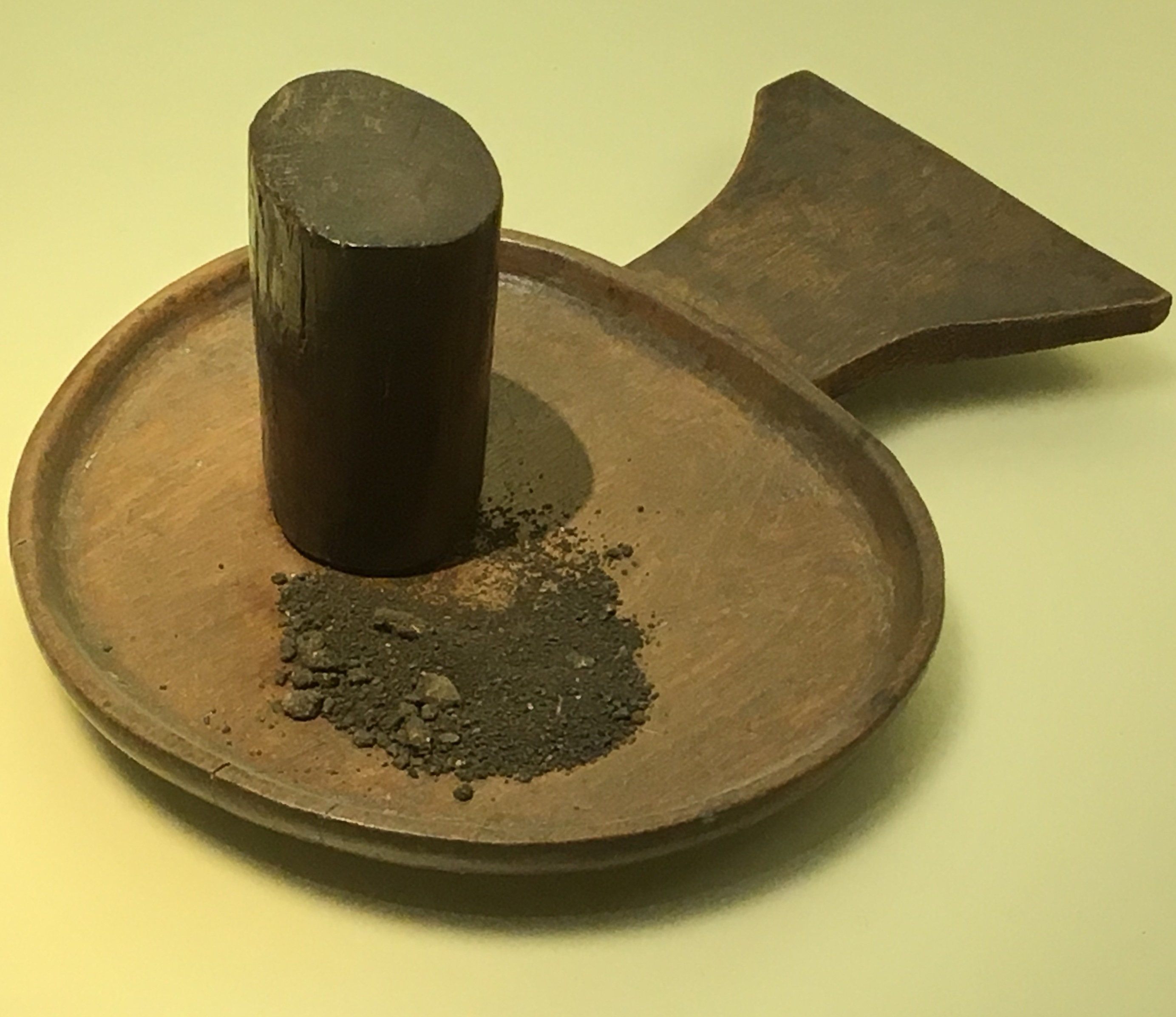 Yopo (Anadenanthera peregrina) snuff in display at Bogotá's Museo del Oro